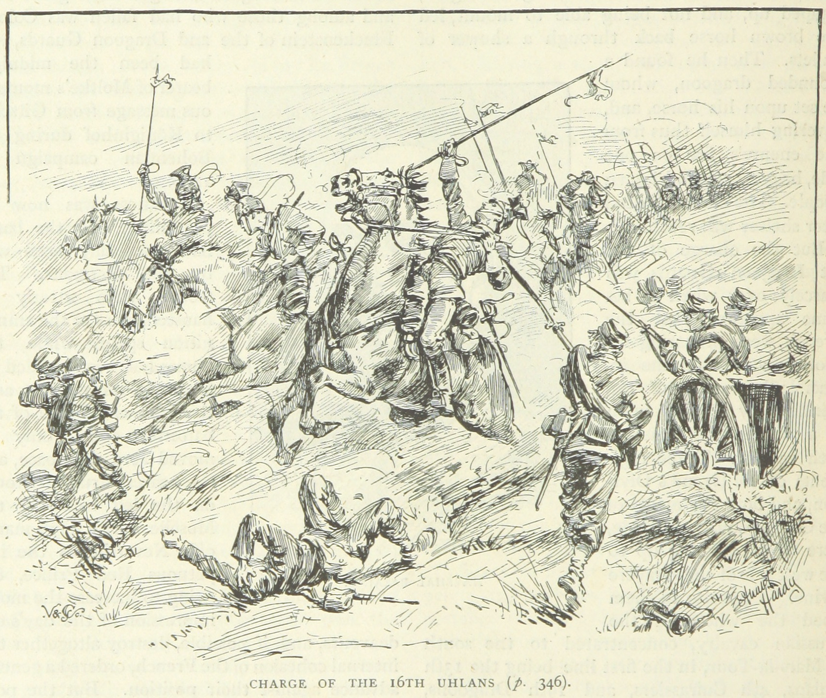 The 16th Uhlans charge at the 1870 Battle of Mars-la-Tour.